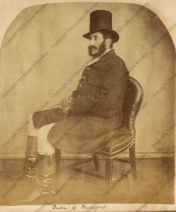 Photography of Henry Somerset, 8th Duke of Beaufort